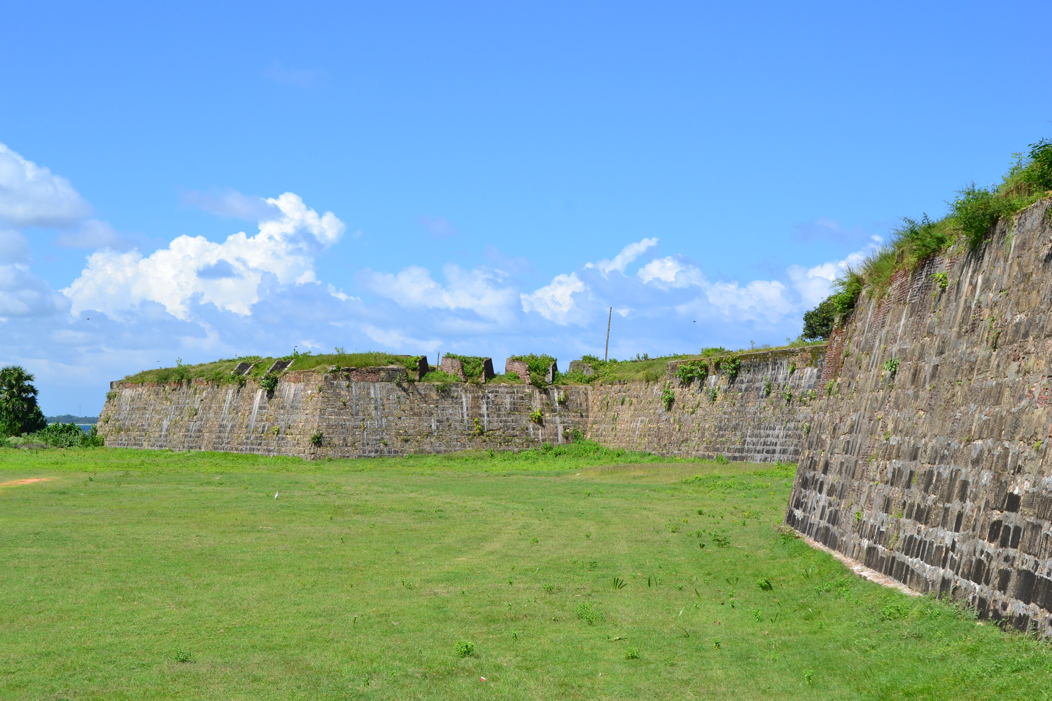 Fort Fredrick in Trincomalee, Sri Lanka